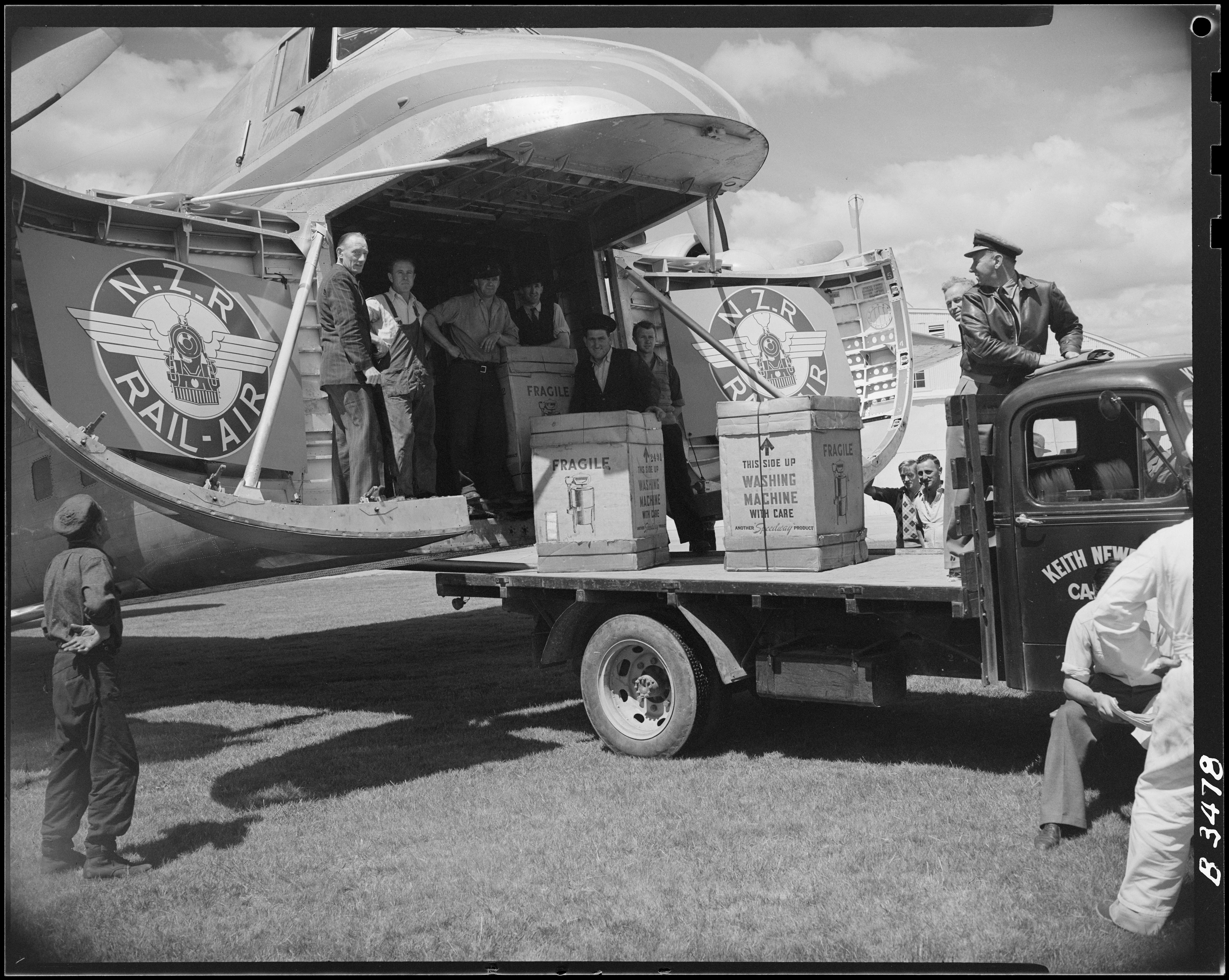 On November 5 1952 a Bristol 170 Freighter took off from Paraparaumu for Nelson loaded with cargo, the first freight service between the two settlements. The first piece unloaded was a washing machine. Archives New Zealand Reference: AAVK 6390 W3493 B3478